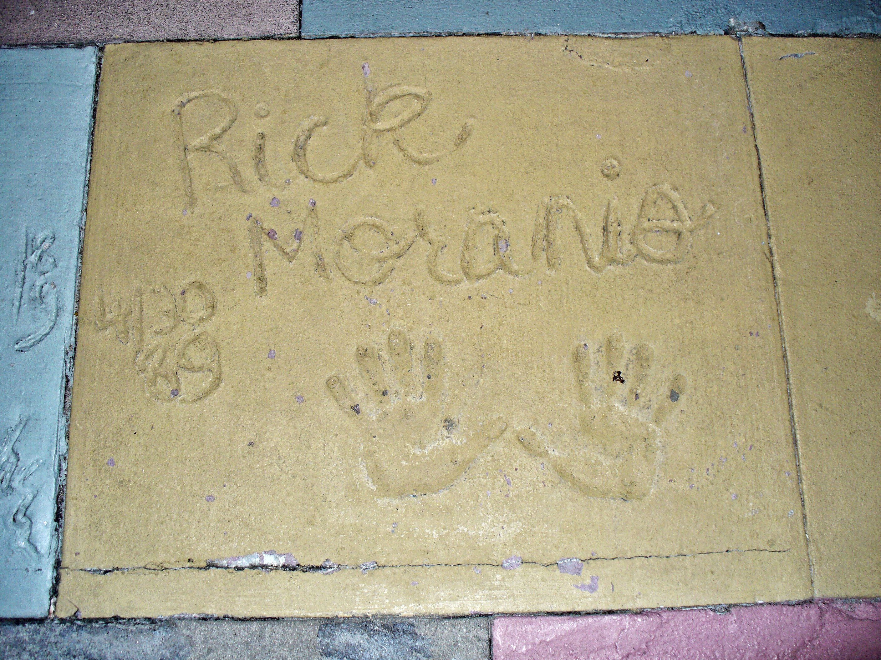 The handprints of Rick Moranis in front of The Great Movie Ride at Walt Disney World's Disney's Hollywood Studios theme park.